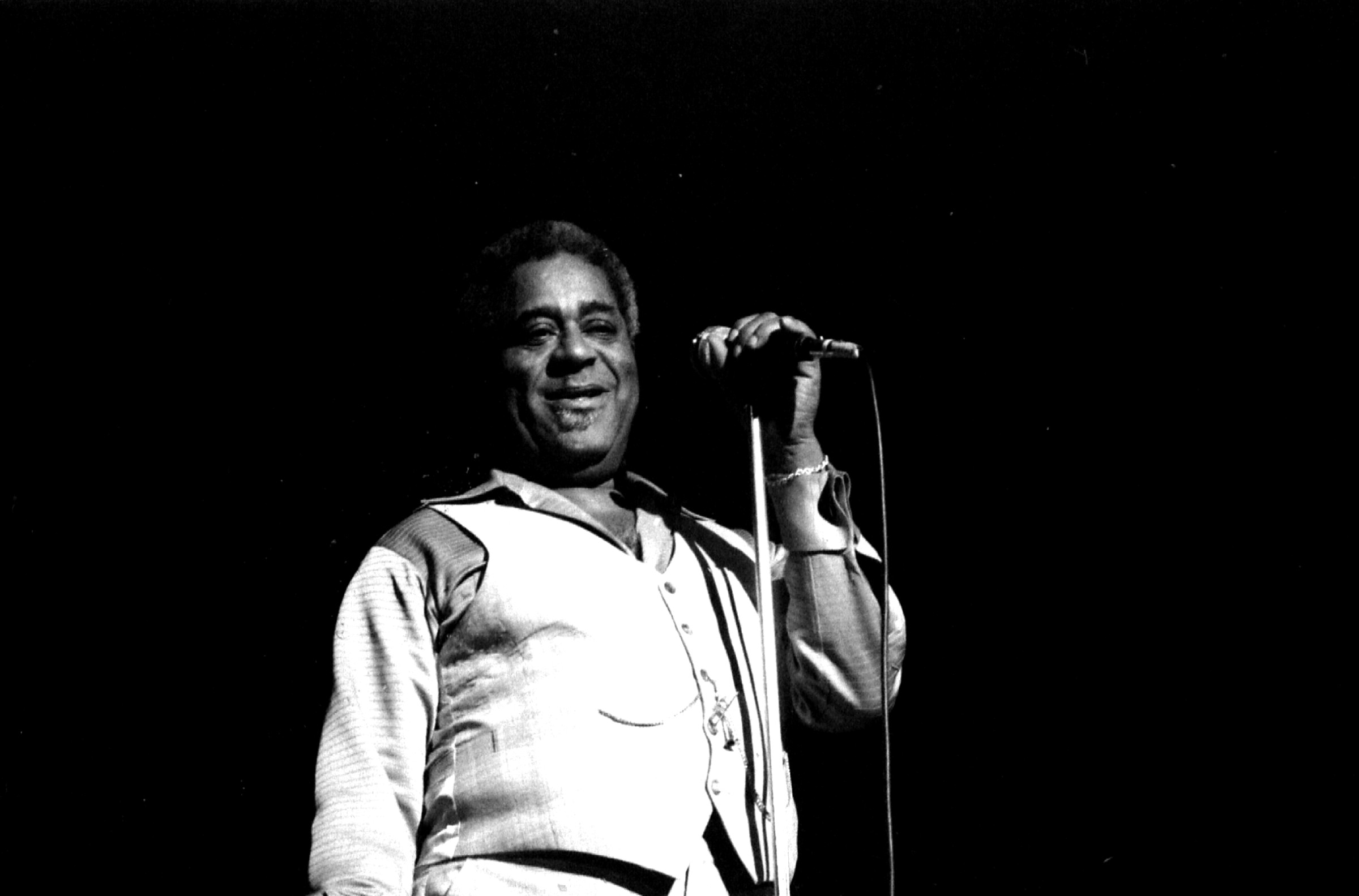 In concert with Dexter Gordon, Colonial Tavern, Toronto, August 19, 1978